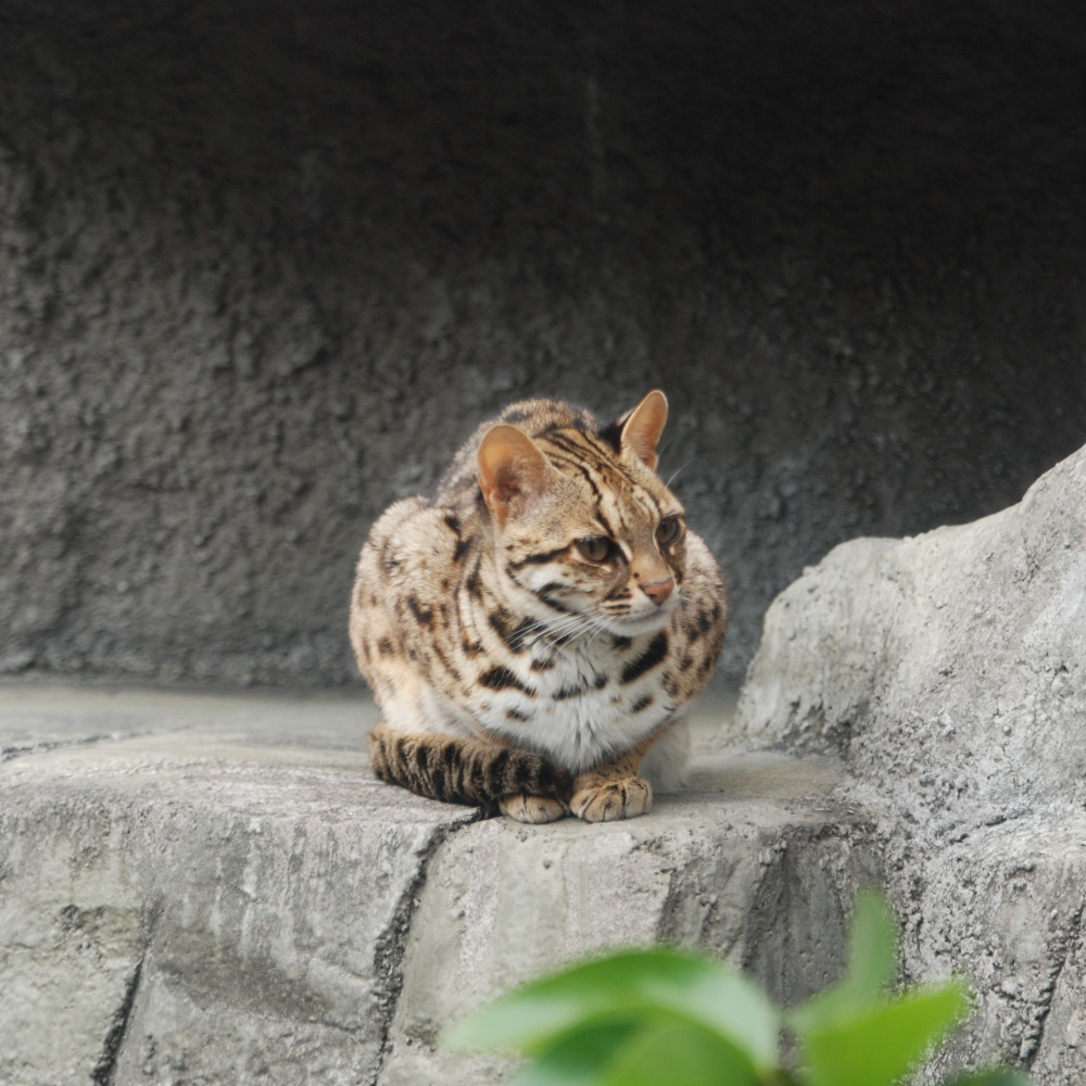 Bengal wild cat of Tennoji Zoo.天王寺動物園のベンガルヤマネコ。